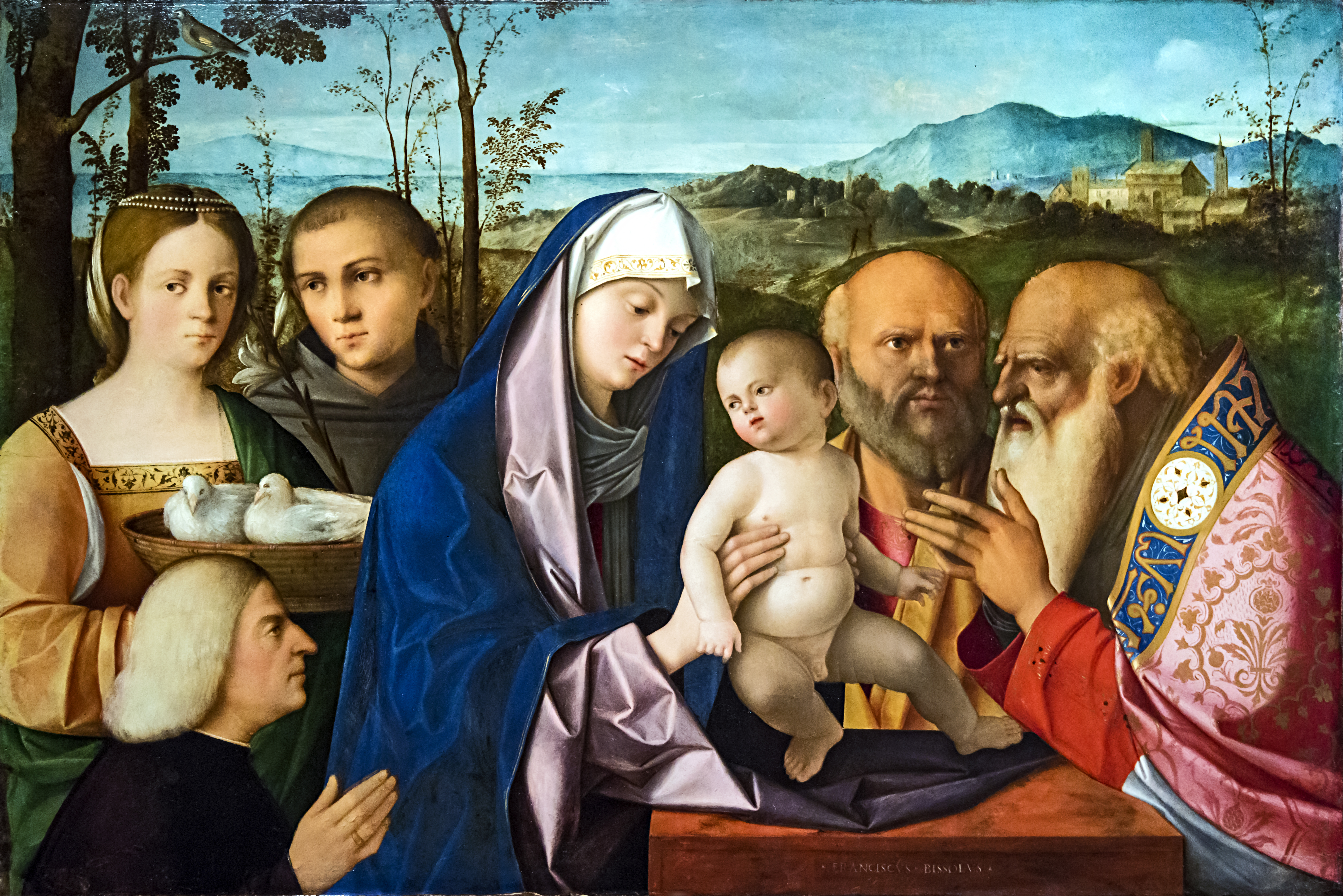 To the right of the Virgin holding the Child appear a girl holding a basket with two white doves, St. Anthony of Padua and the donor, to the left of the saints Joseph and Simeon.